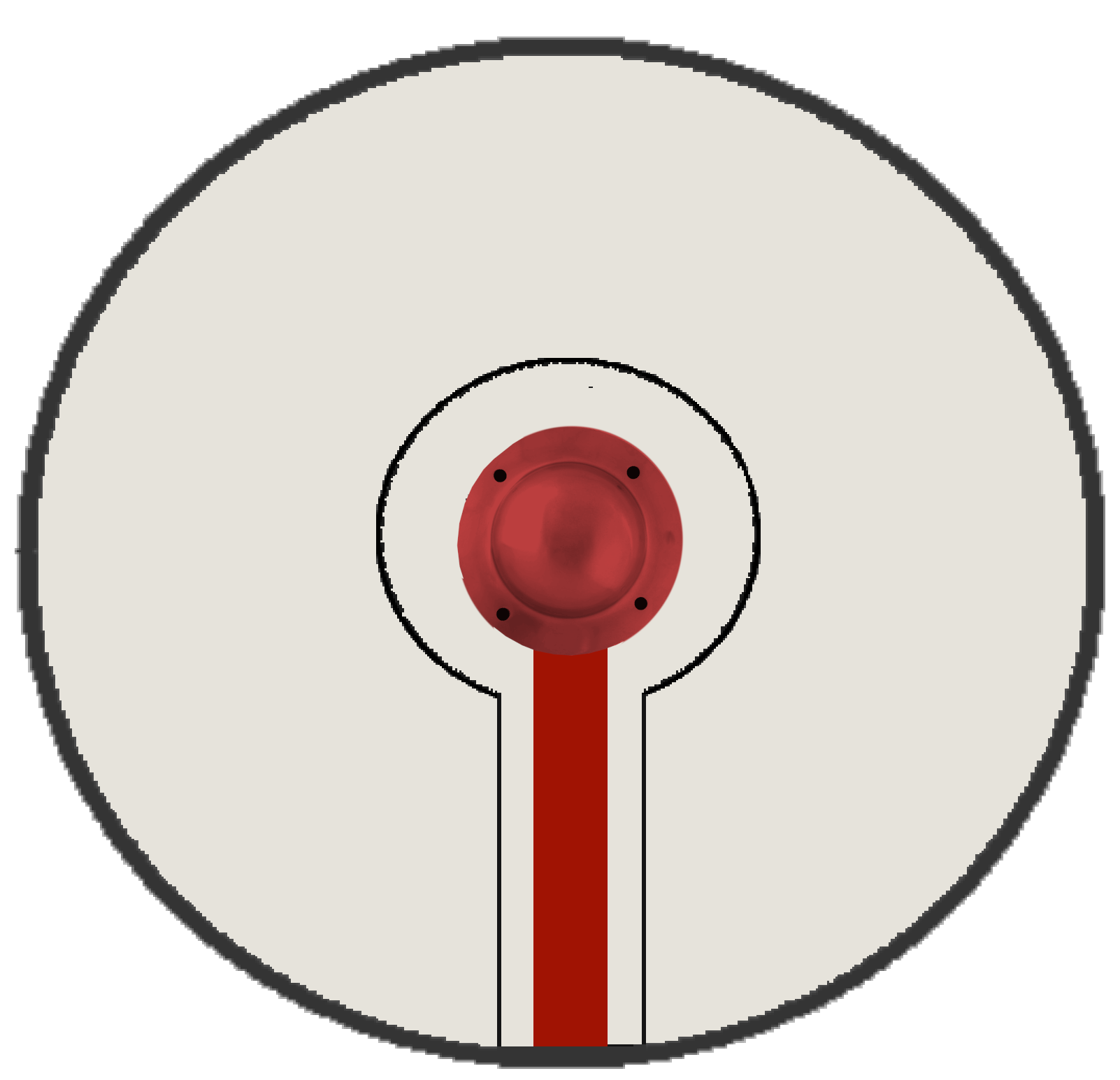 Shield pattern o.t. Comites Alani, listed as the seventh of the vexillationes palatinae in the Magister Equitum's cavalry roster; it is assigned to the Magister Peditum's Italian command.